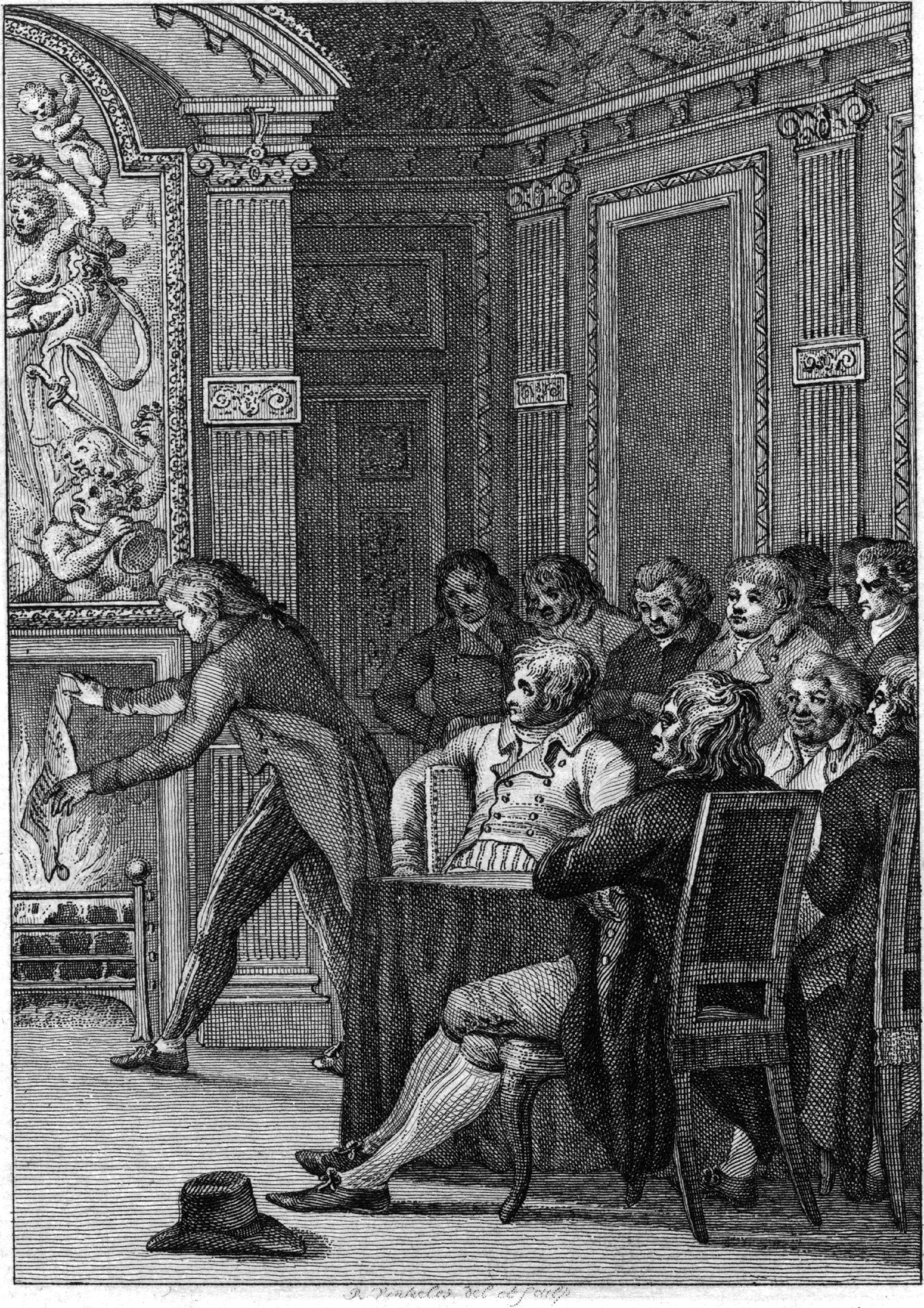 Daniël van Laer tosses the Act of Guarantee, in which the hereditary stadholdership was guaranteed to the House of Orange, in the fireplace of a room at the Sates of Holland.